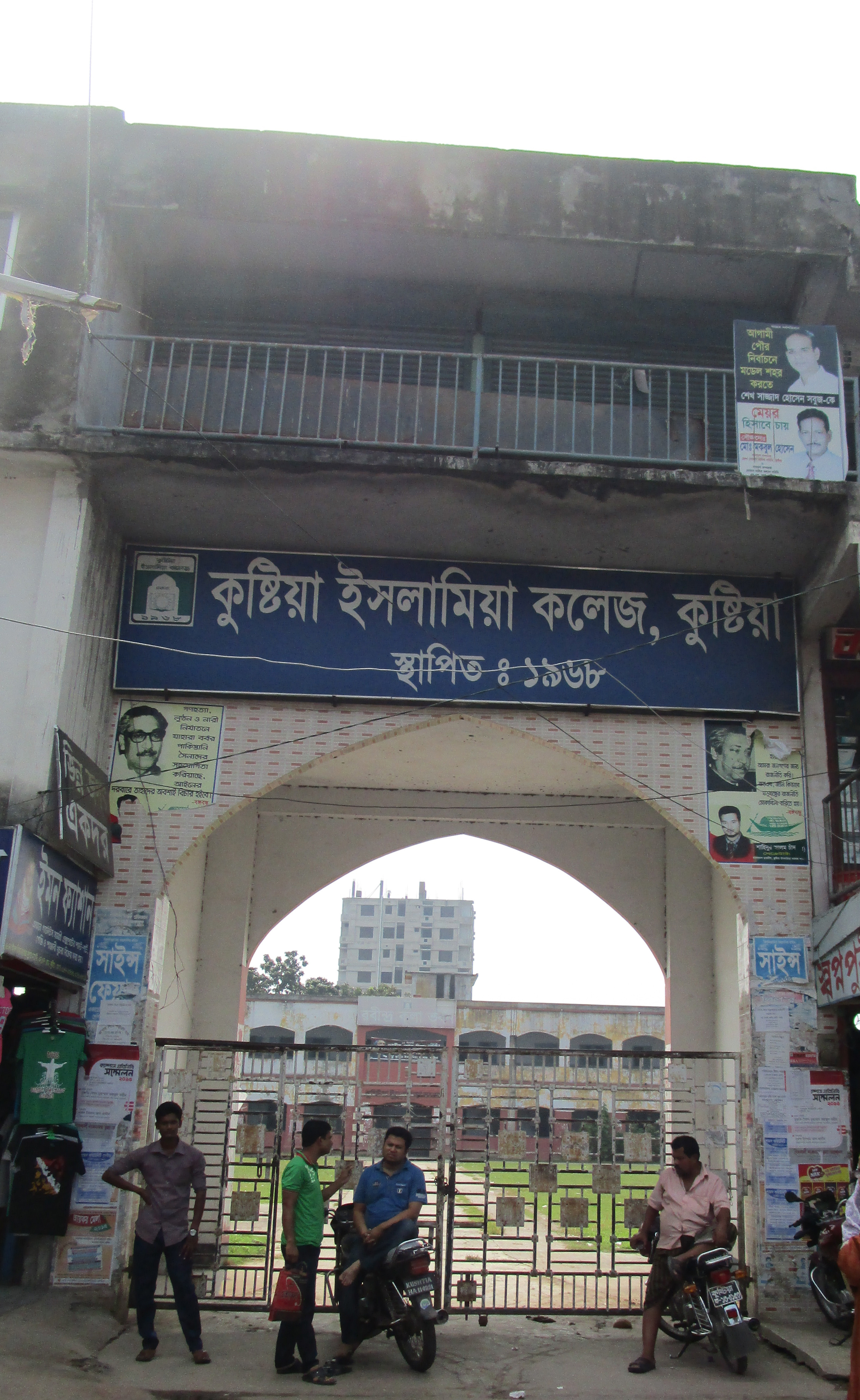 Kushtia Islamia College Nameplate.